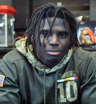 Tyreek Hill in 2019